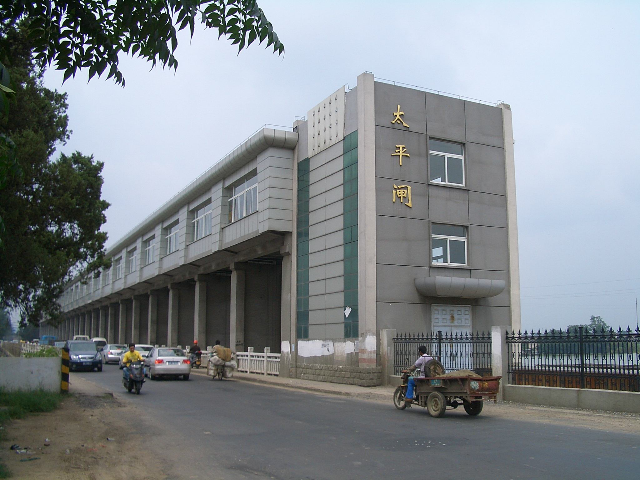 Taiping River (Taiping He) around Taiping Floodgate (Taiping Zha)